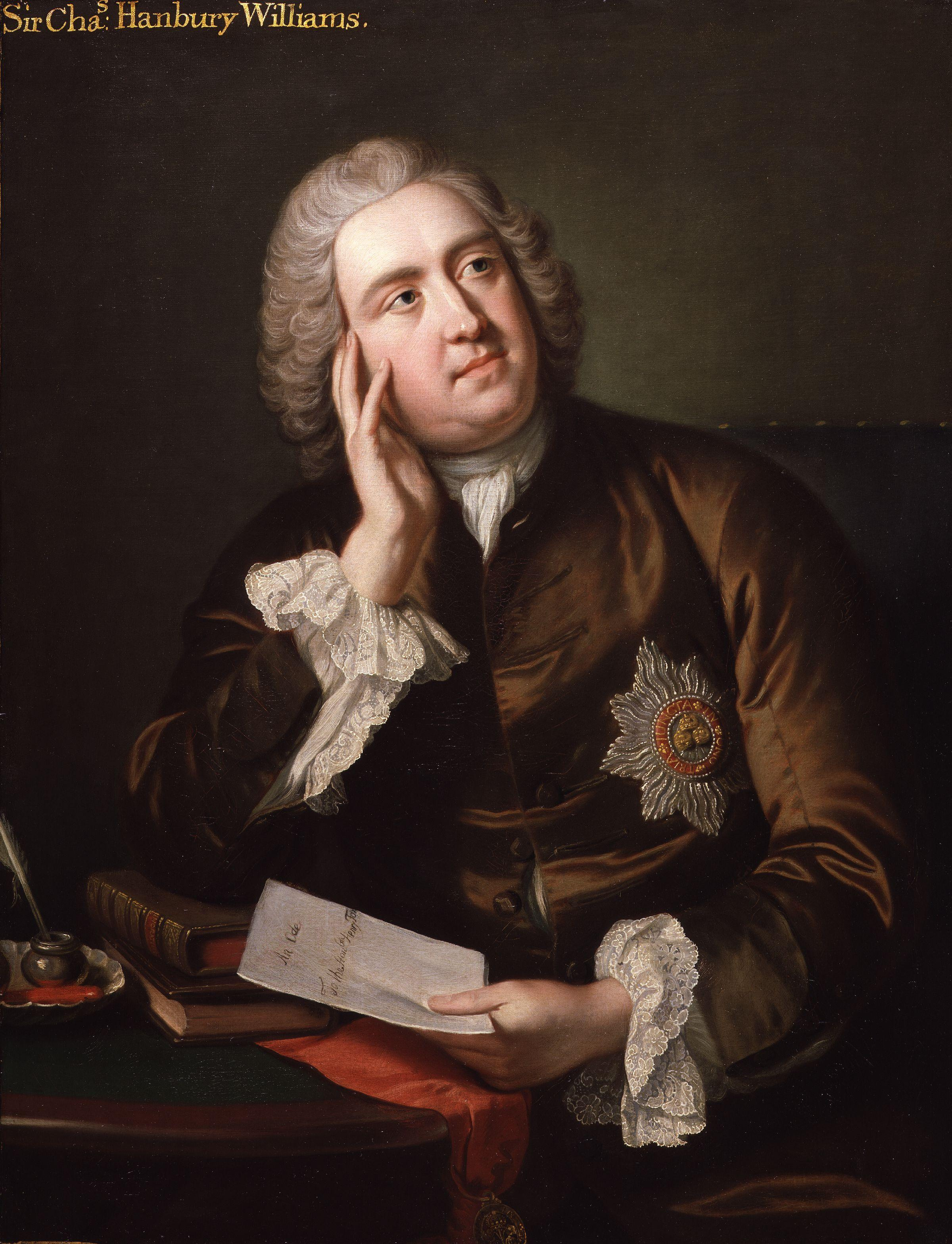 All images in this batch have a known author with unknown death date, but according to the NPG's website the author was floruit (known to be active) prior to 1859, and so is reasonably presumed dead by 1939 , given to the National Portrait Gallery, London in 1873.